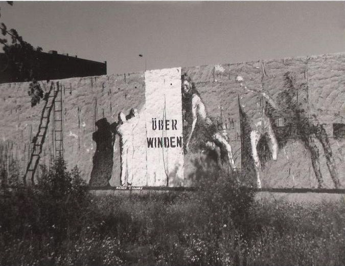 Art-graffiti on the Berlin WallÜBER WINDEN-OVER HOISTS